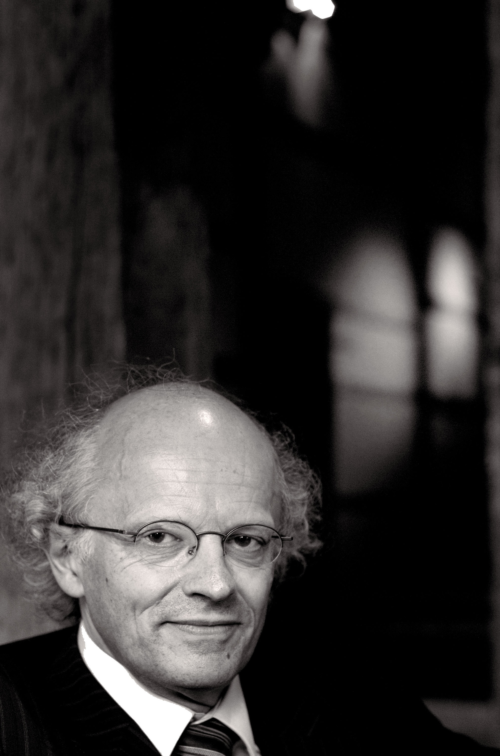 Marc Vervenne in de Faculty Club van de KU Leuven.